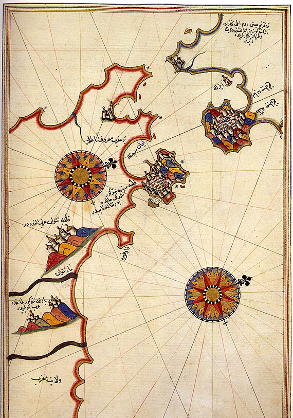 Strait of Gibraltar map in the Kitab-ı Bahriye (“Book of Navigation”) by Piri Reis.